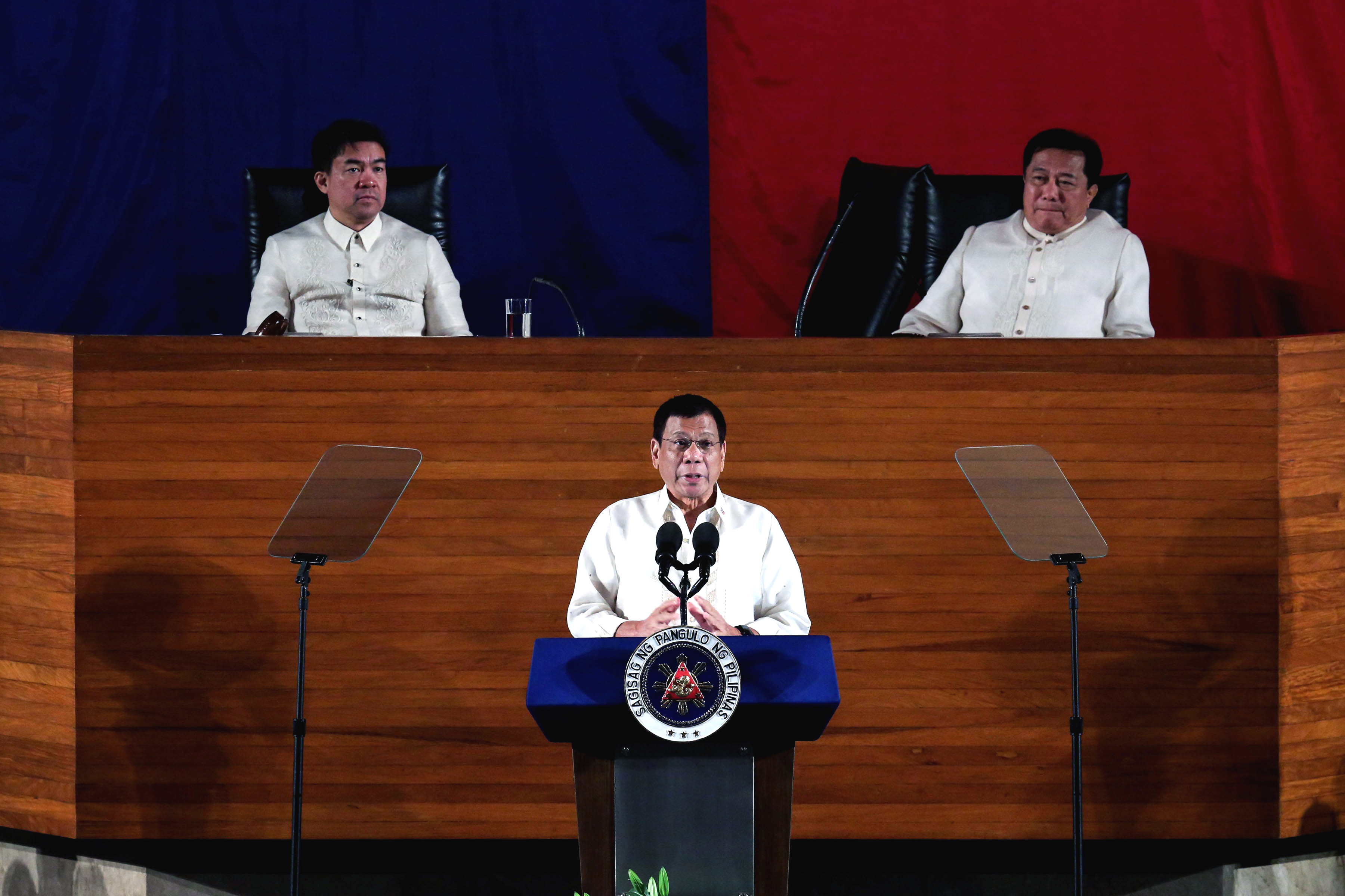 President Rodrigo R. Duterte starts off with his State of the Nation Address at the Batasang Pambansa on Monday, July 25, 2016 by saying that he will not put any blame on the past administrations but instead learn from their shortcomings. Also in the photo are Senate President Aquilino 'Koko' Pimentel III (left) and House Speaker Pantaleon Alvarez. (ACE MORANDANTE/PPD)